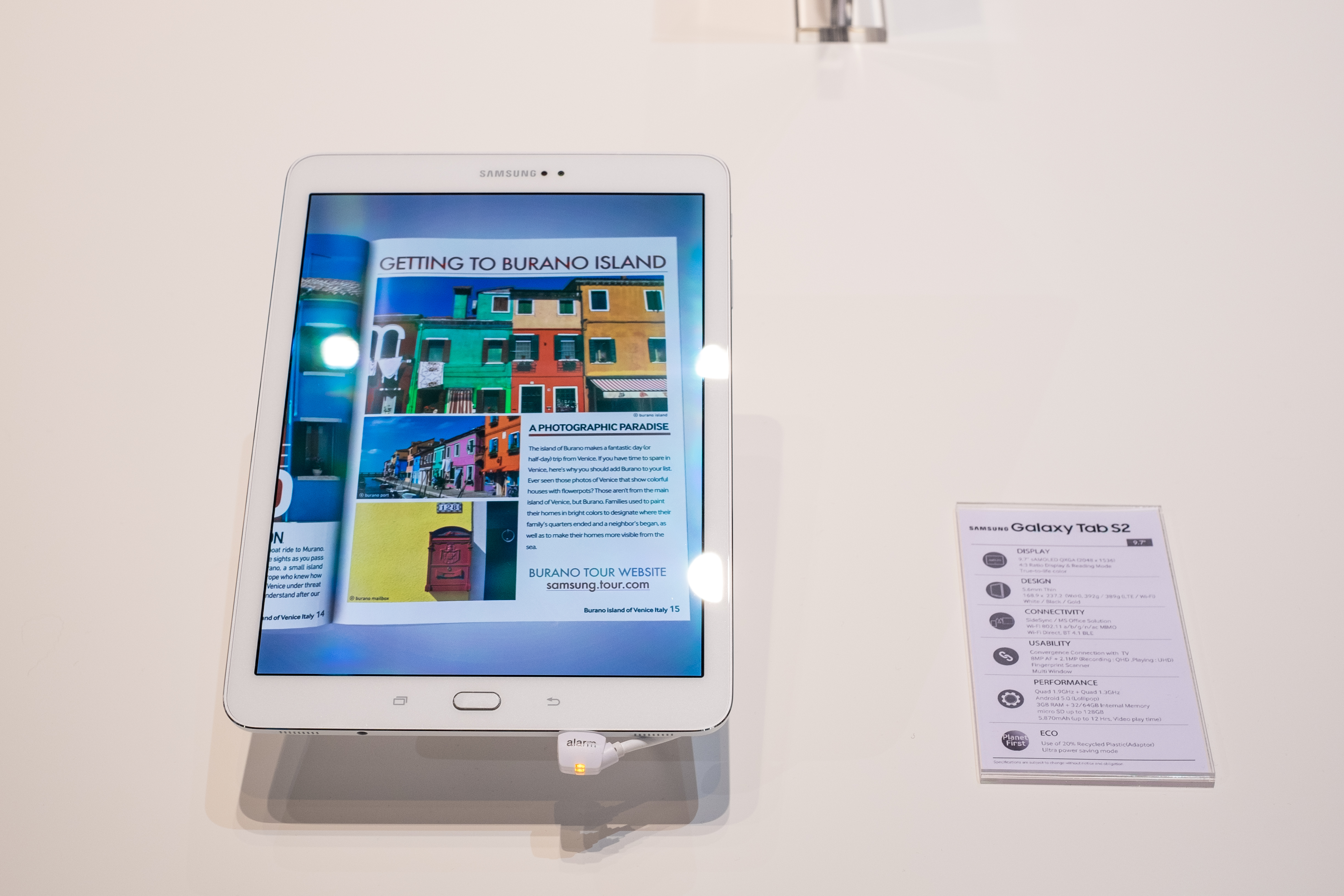 Samsung Galaxy Tab S2 in IFA 2015